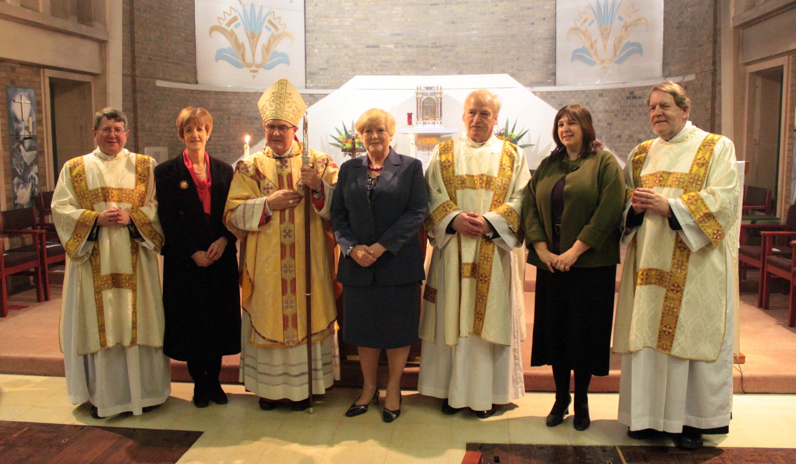 L to R: Deacon Keith Newton; Gill Newton; Bishop Alan Hopes; Judi Broadhurst; Deacon John Broadhurst; Cathy Burnham; Deacon Andrew Burnham